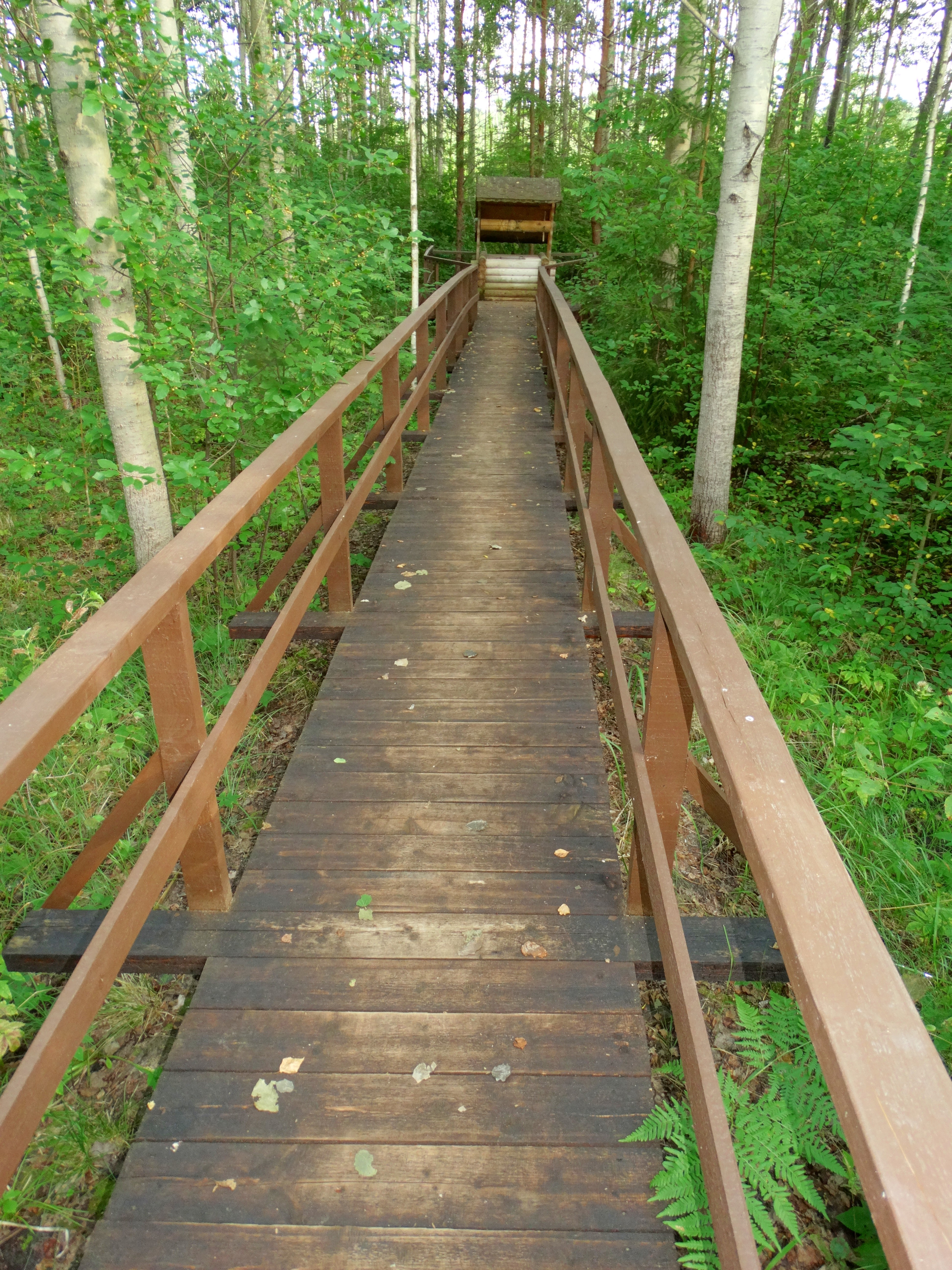 Spring by chapel in Agailės Forest, Šiauliai district, Lithuania